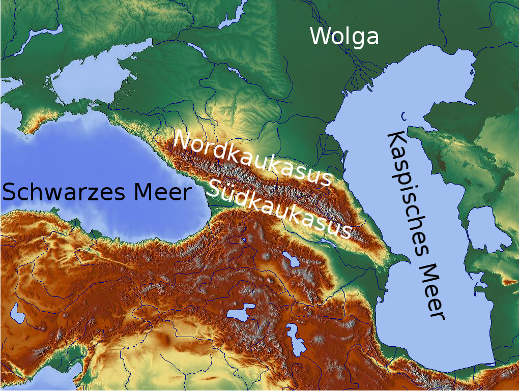 Maps of Northern Caucasus, Russia; from